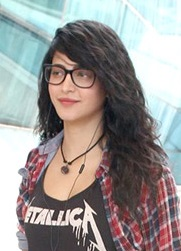 ShrutiHassan clicked at mumbai domestic airport